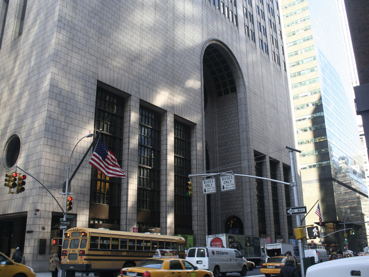 AT&T (Sony) building in New York by Philip Johnson